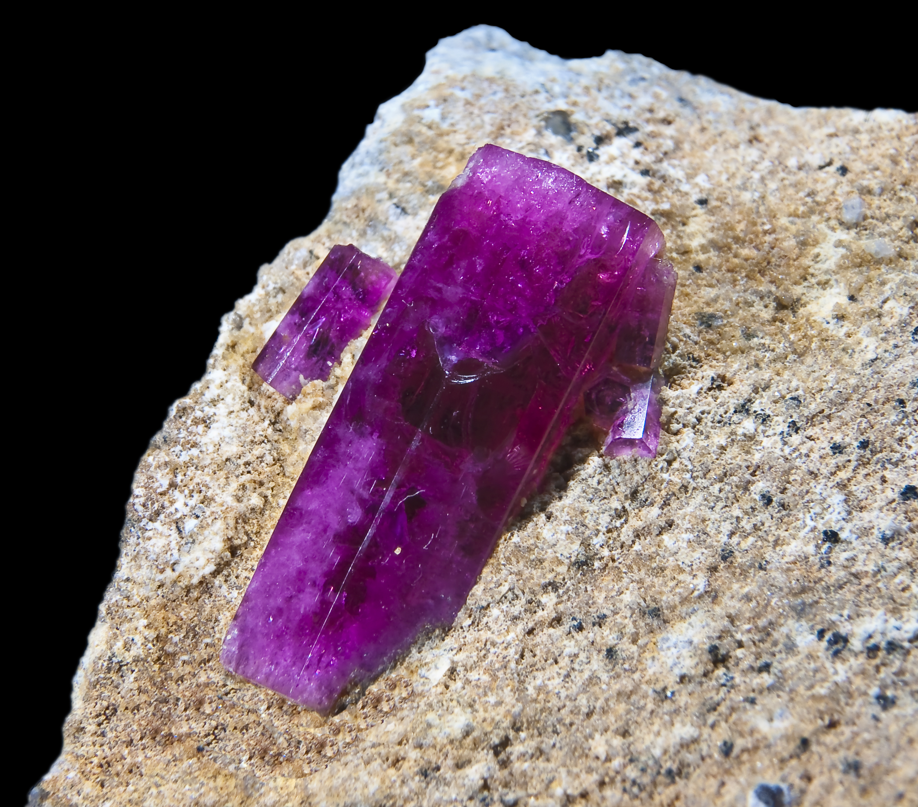 Red Beryl - Wah Wah Mts, Beaver Co., Utah, USA - (Crystal size 1.7 cm)